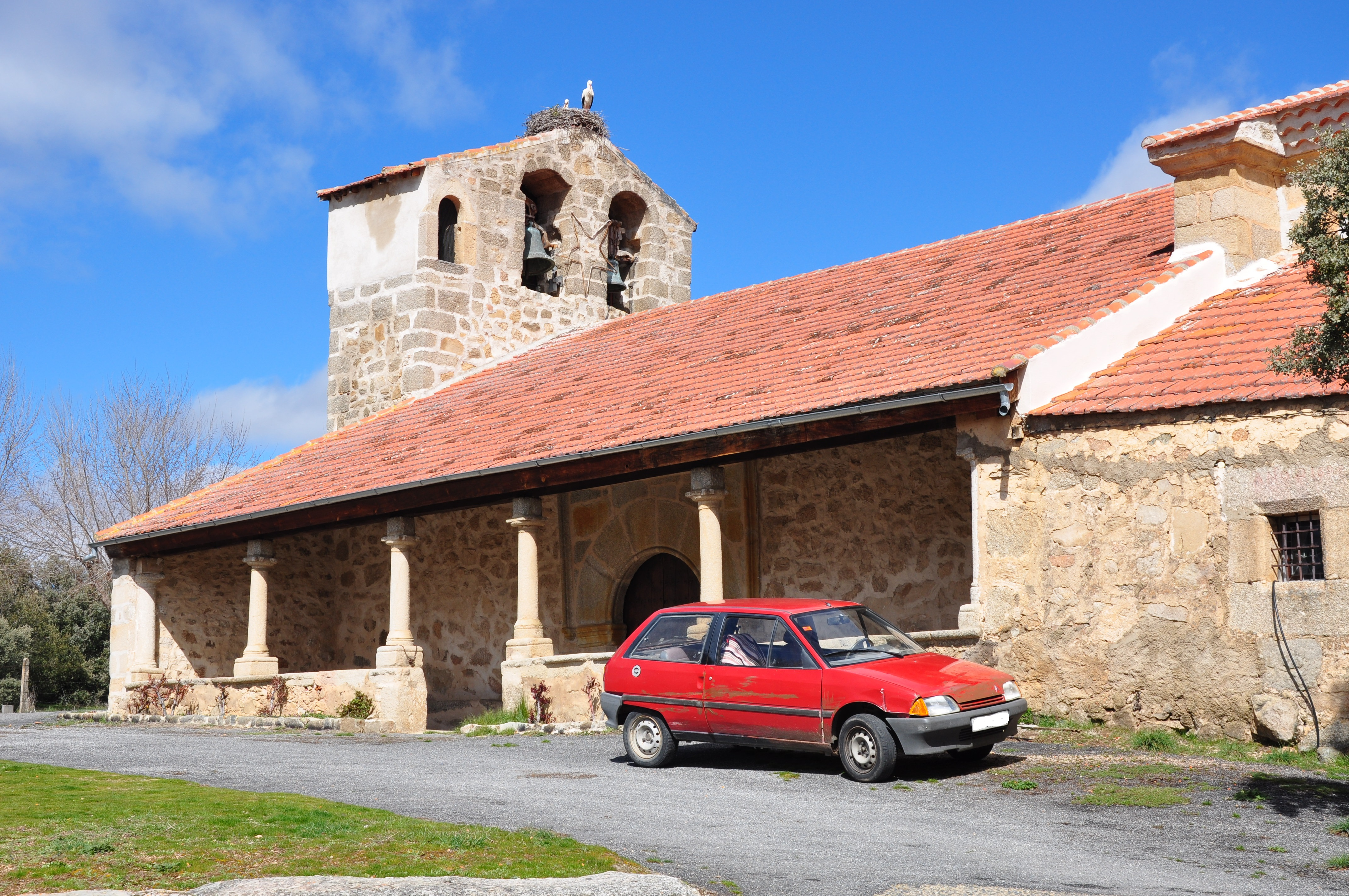 Parish Church of Our Lady of the Assumption, Becedillas, Ávila, Spain